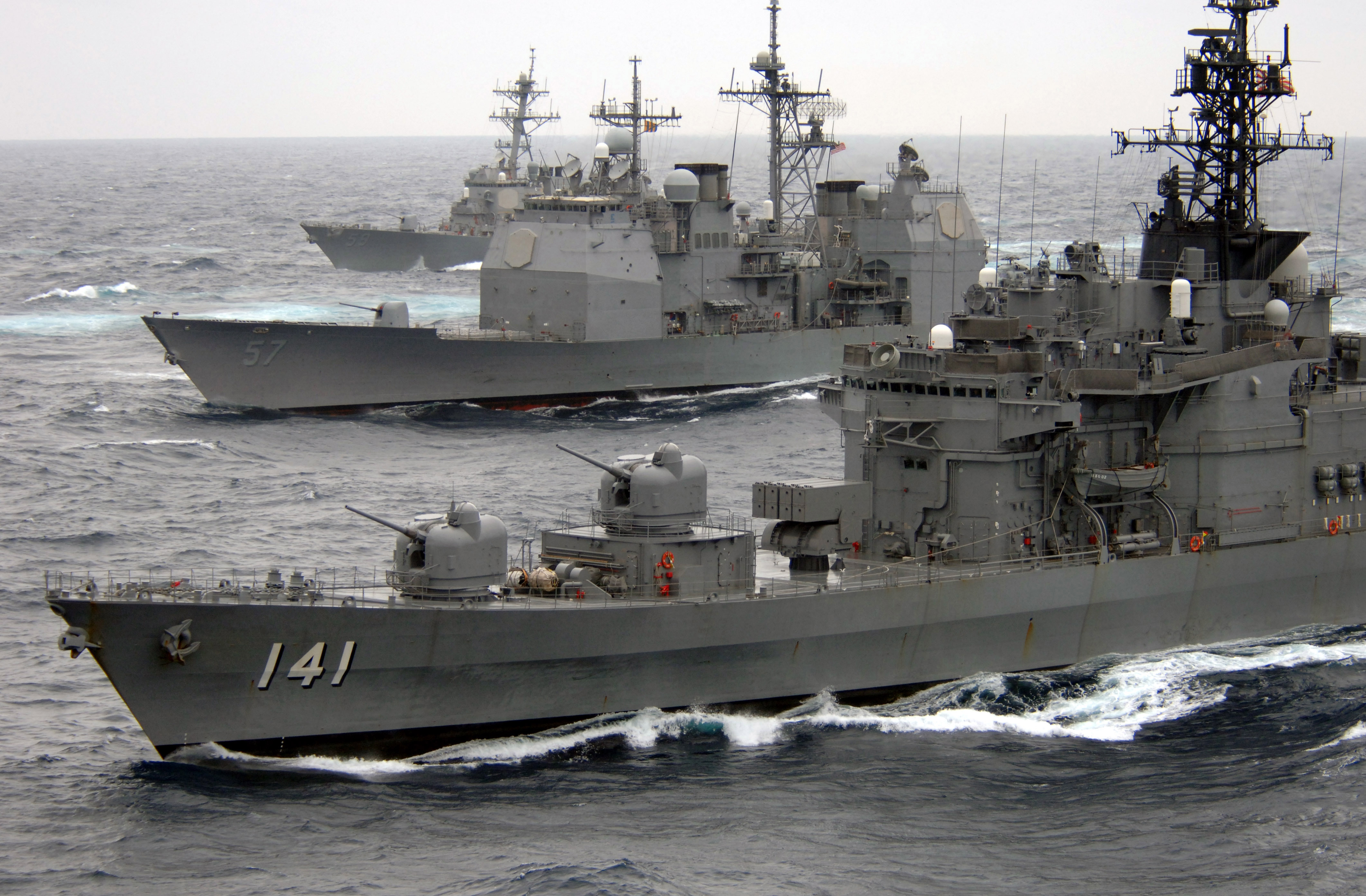 PHILIPPINE SEA (March 18, 2007) - Japan Maritime Self Defense Force (JMSDF) ship JS Haruna (DDH-141), USS Lake Champlain (CG-57) and USS Russell (DDG-59) steam in formation during a photo exercise (PHOTOEX) between the Ronald Reagan Carrier Strike Group and JMSDF. Ronald Reagan Carrier Strike Group, with embarked Carrier Air Wing (CVW) 14, is deployed in support of operations in the 7th Fleet area of responsibility. U.S. Navy photo by Chief Mass Communication Specialist Spike Call (RELEASED)